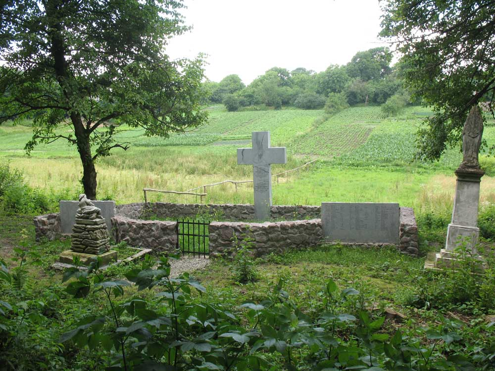 Graveyard in Berezownica Mala, Ukraine